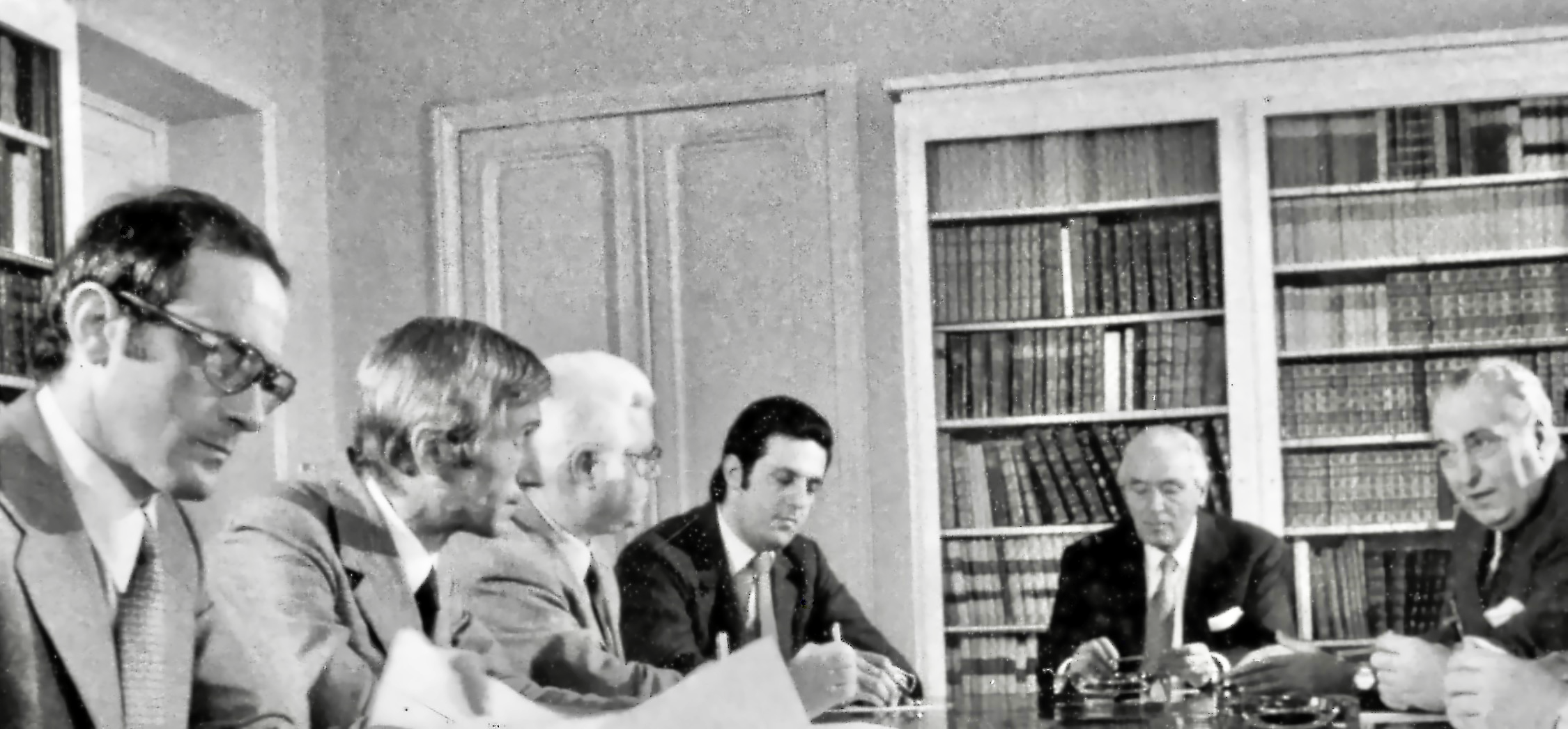 Meeting of directors at G.C. Sansoni Publishing House, Florence, 1974. From right to left: Federico Gentile (CEO), Benedetto Gentile (President), Giovanni Gentile (General Manager), Giuliano Bernardi (Commercial Director), Alberto Busignani (Arts Editor), Mario Biondi (Press Office Manager).